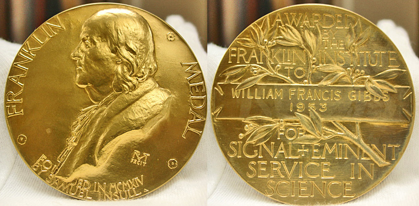 This Franklin Medal was presented by the Franklin Institute to William Francis Gibbs in 1953. It is in the collection of The Mariners' Museum in Newport News, VA.